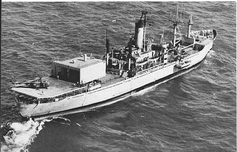 USNS Dalton Victory (T-AK-256) underway. This photo shows Dalton Victory in her AGM (range instrumentation ship) configuration, but at the time of the photo was still carrying her AK (cargo ship) designation.